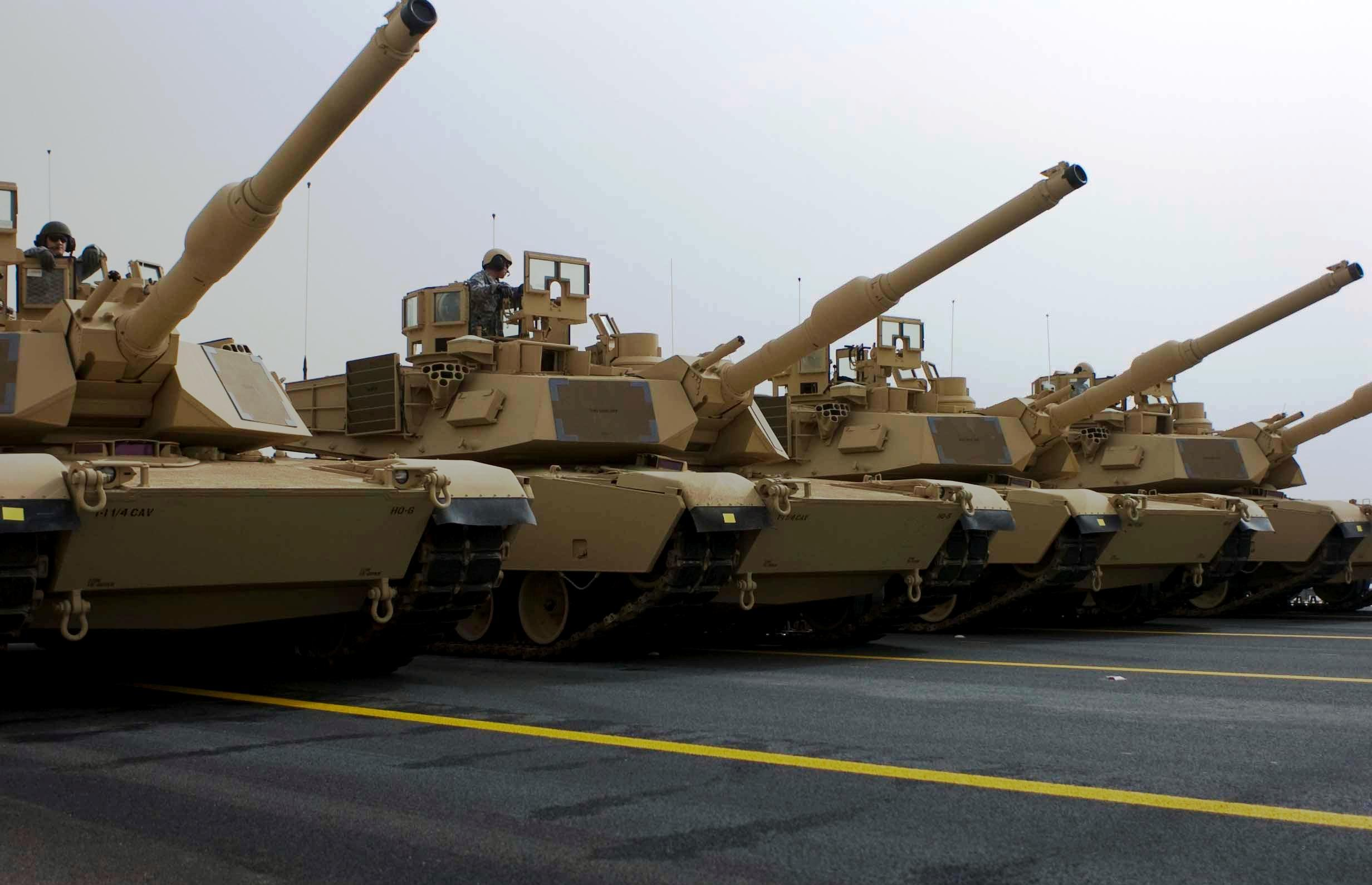 A row of Abrams tanks manned by Kuwaiti soldiers rolls down the street during rehearsals for the 50/20 Celebration parade Feb. 21, 2011, at Camp Arifjan, Kuwait. Kuwaiti celebrations marked the 50th anniversary of independence from Great Britain and the 20th anniversary of the ouster of Iraqi forces from Kuwait during the Persian Gulf War.